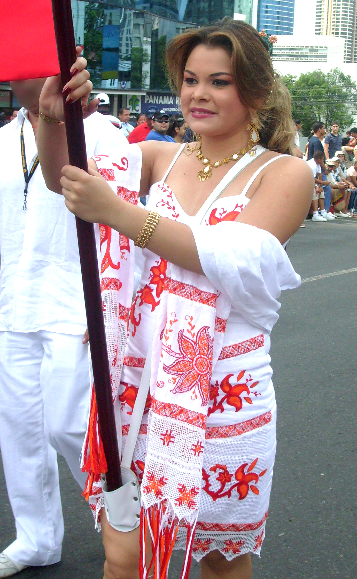 Margarita henriquez in parade in Panamá